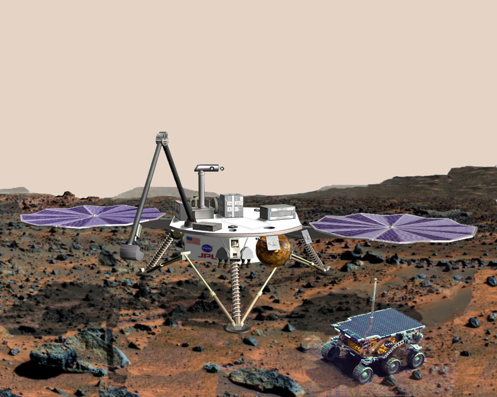 Mars Surveyor 2001 lander with Marie Curie rover. This mission was cancelled.